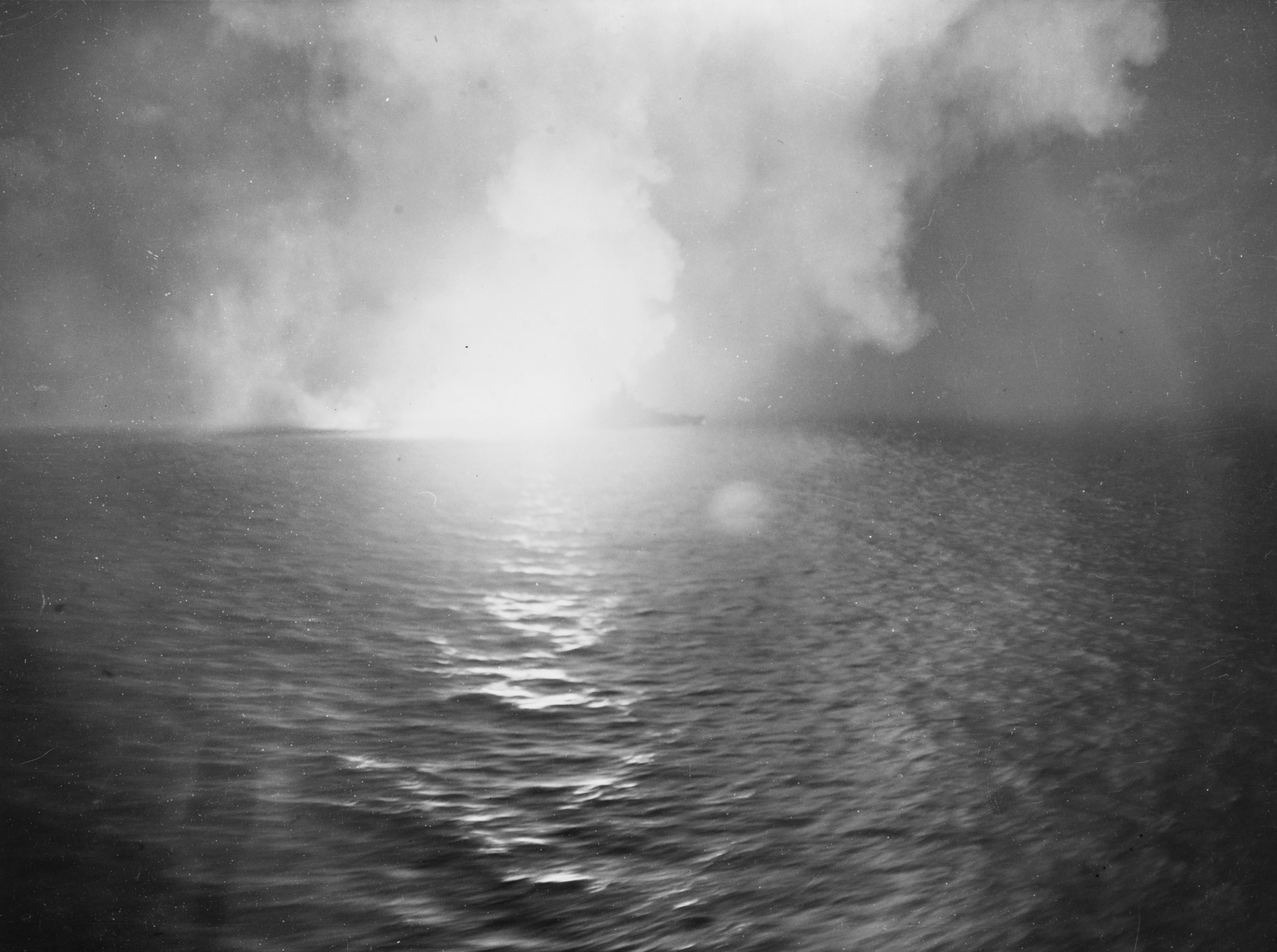 The U.S. Navy battleship USS West Virginia (BB-48) firing during the Battle of Surigao Strait, 24-25 October 1944.